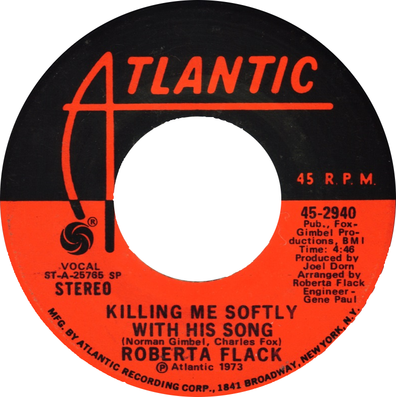 "Killing Me Softly with His Song" by Roberta Flack; one of A-side labels of the US vinyl single